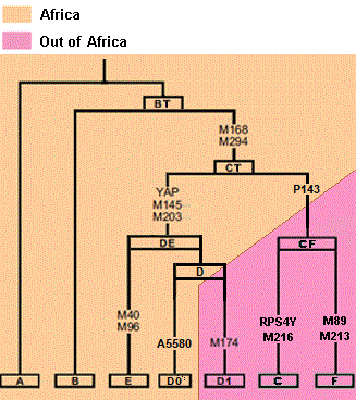 Tree of Human Y-chromosome DNA haplogroups